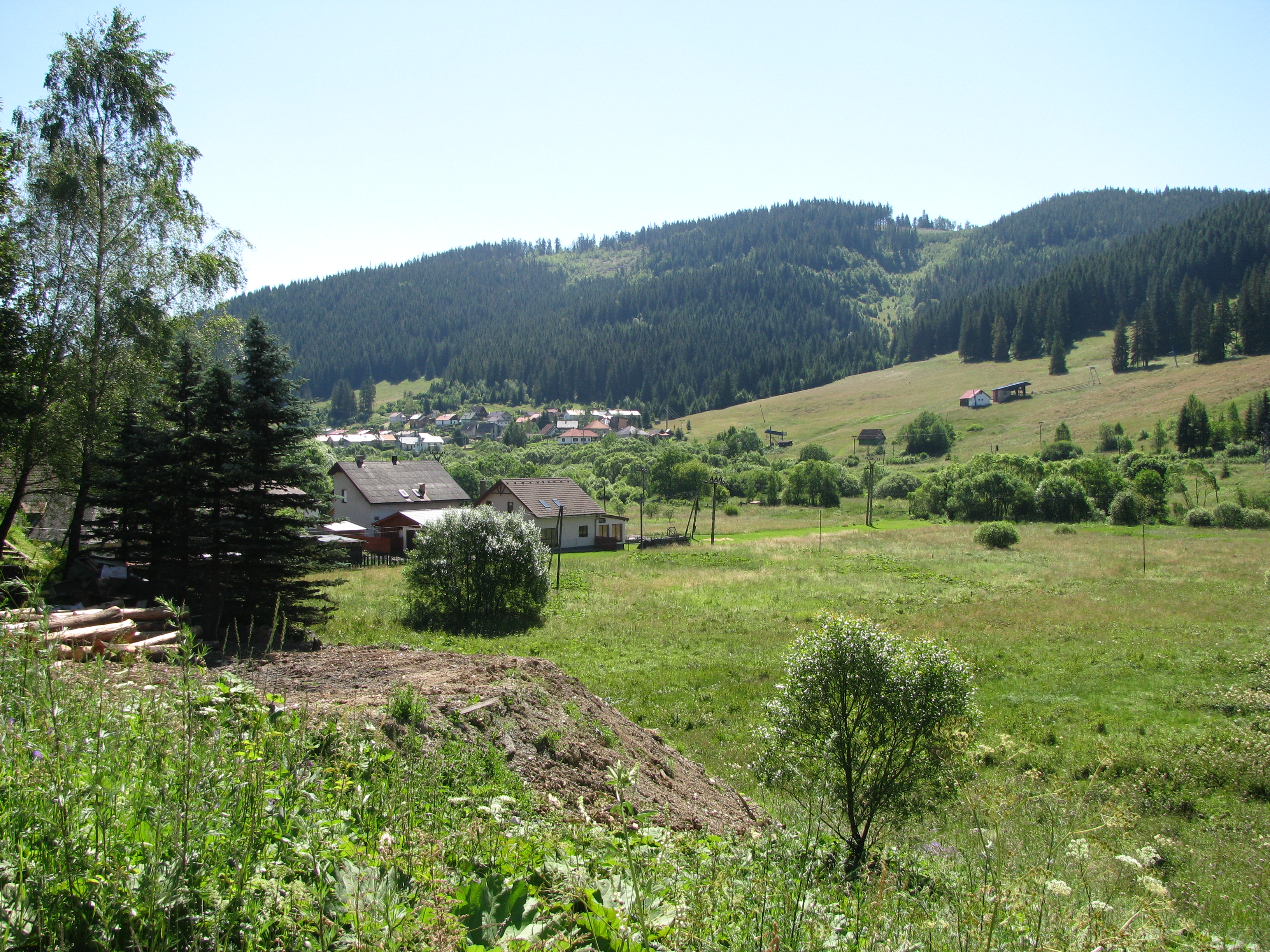 Village Postredny Hamor, Slovakian Paradeis